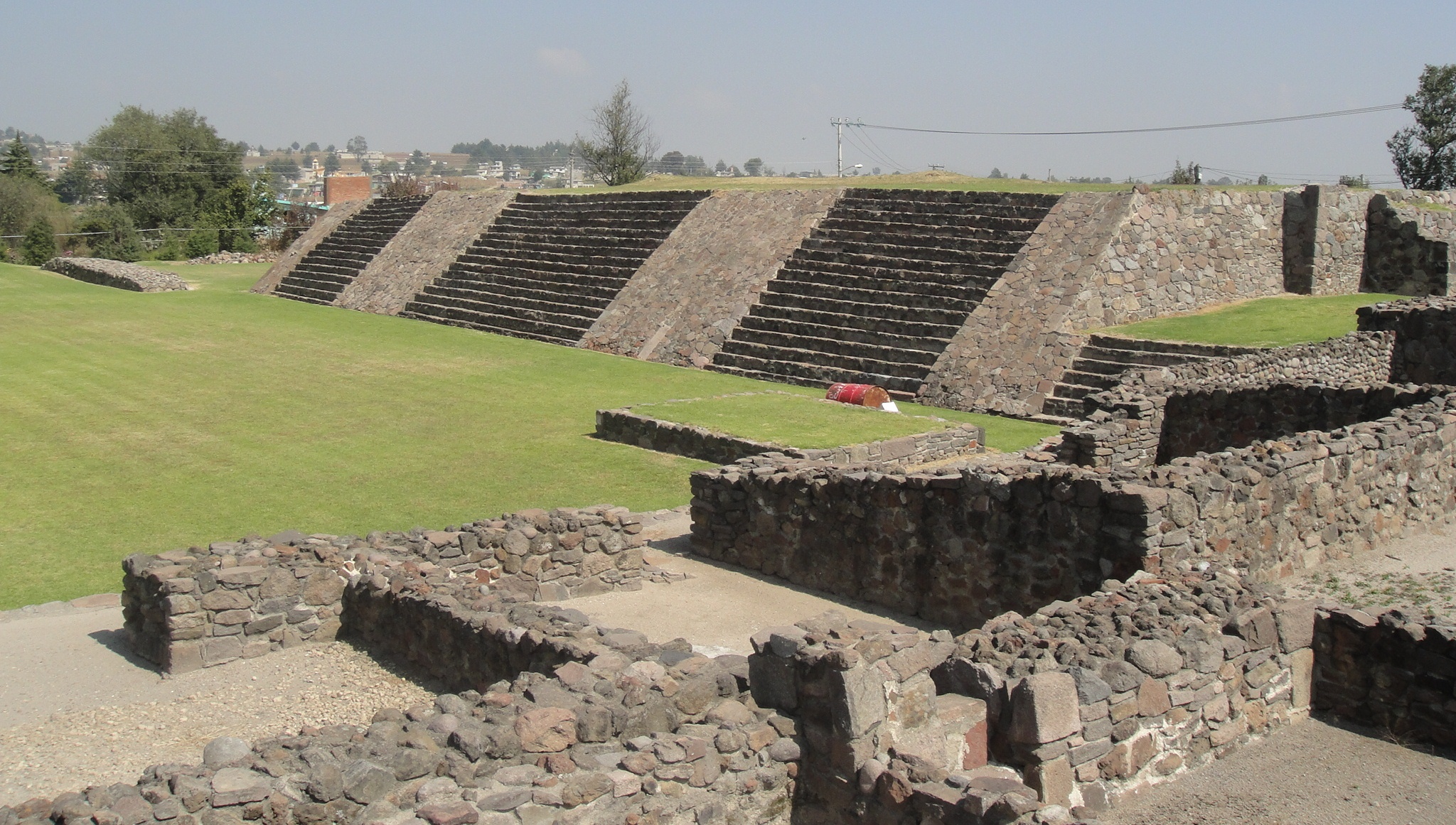 Structure 17)